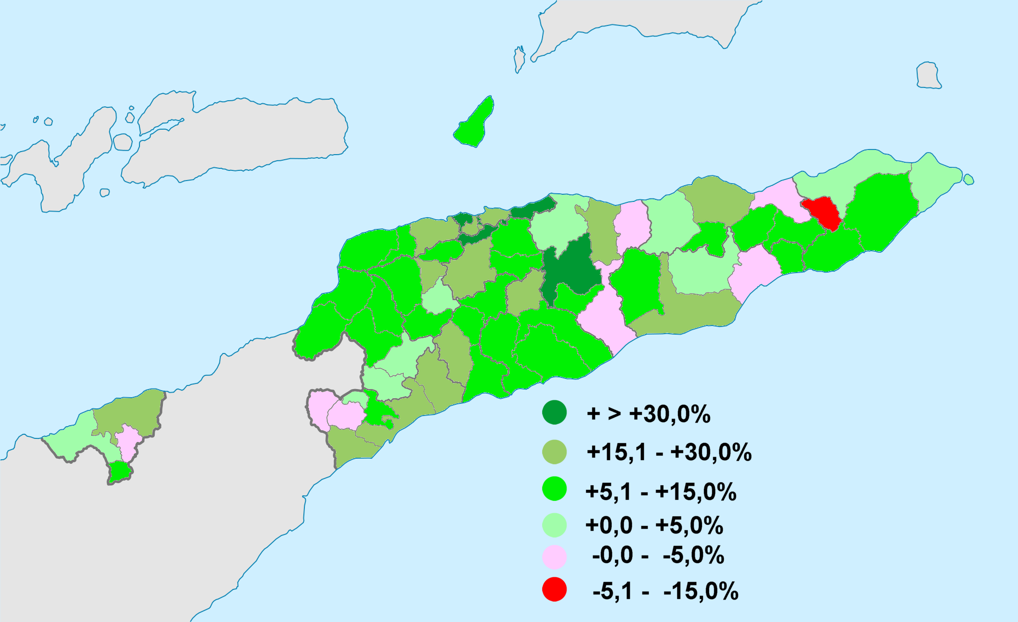 Changing of population in subdistricts of East Timor